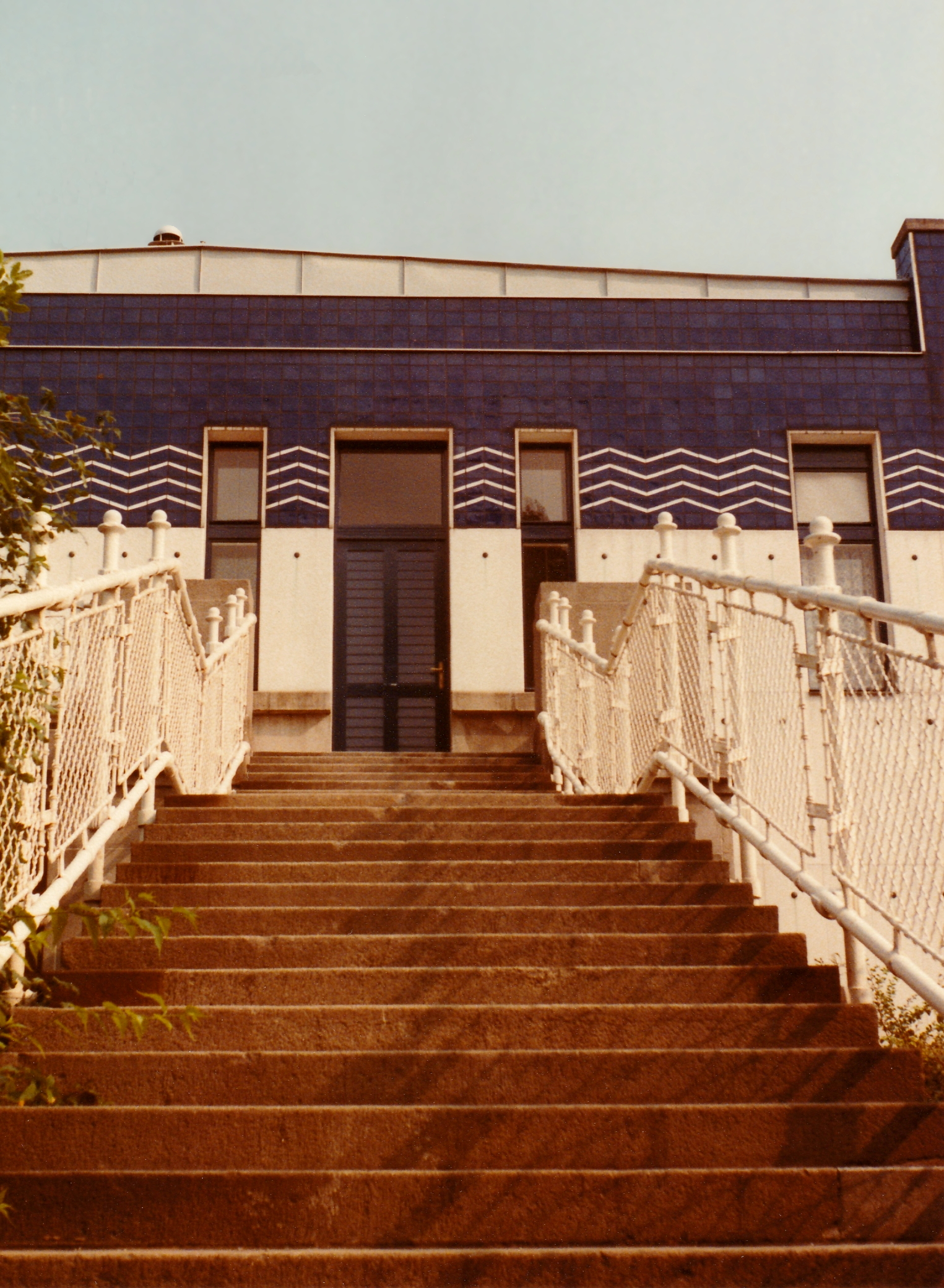 Schützenhaus der Staustufe Kaiserbad - Otto Wagner - Vienna